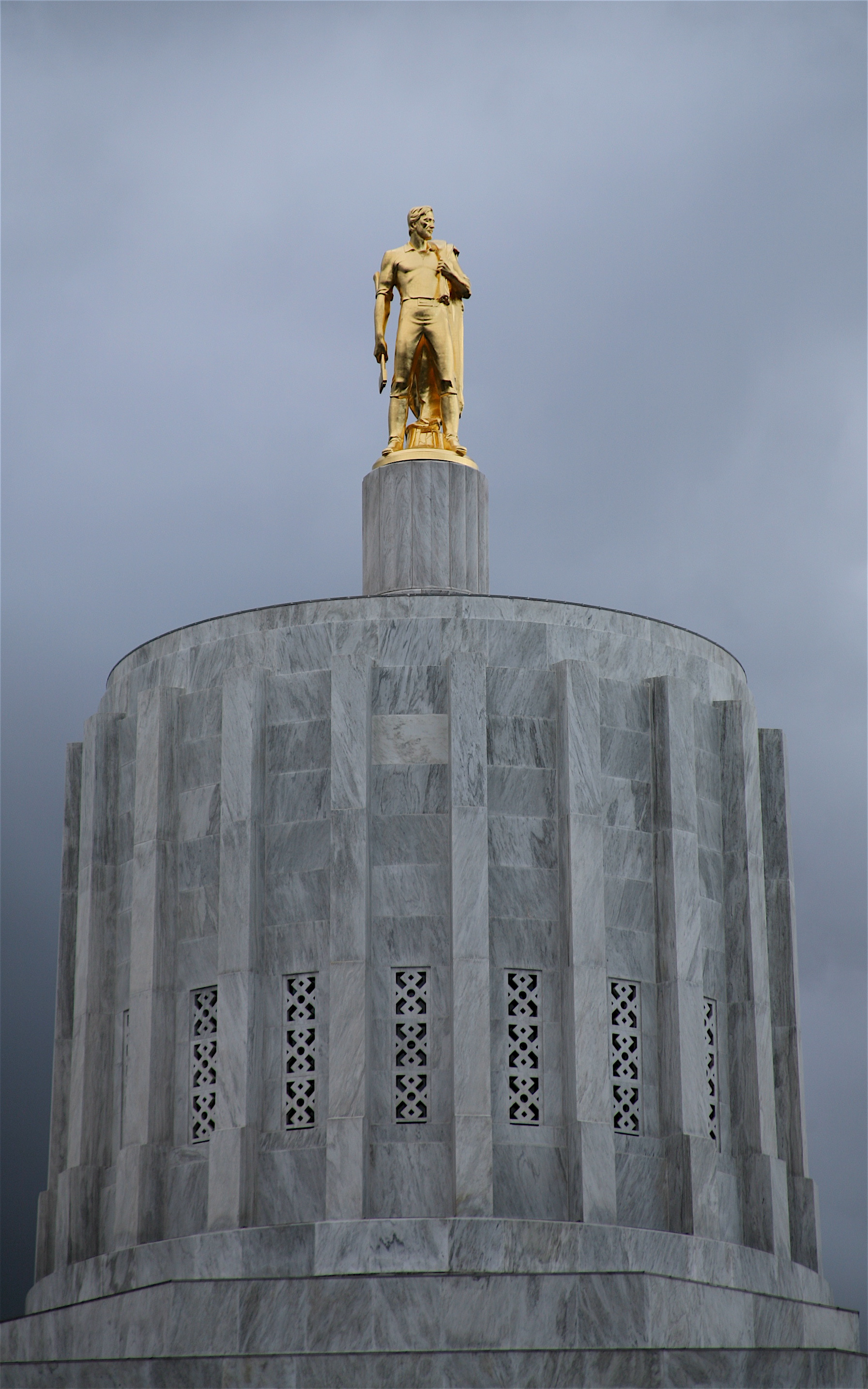 The pioneer atop the Oregon State Capitol Building. He is holding an ax and looking towards the west.